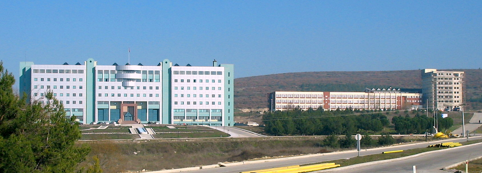 Balikesir University, Turkey